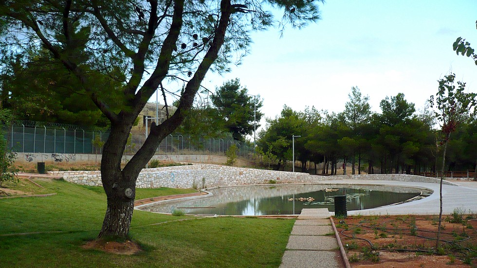 The picture depicts the Naval Base lake.